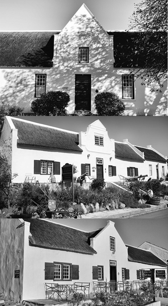 addds sdds